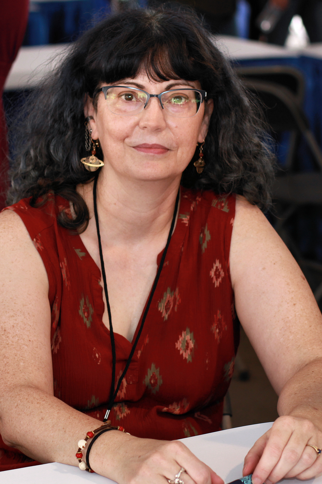 Author Martha Wells at the 2018 Texas Book Festival in Austin, Texas, United States.